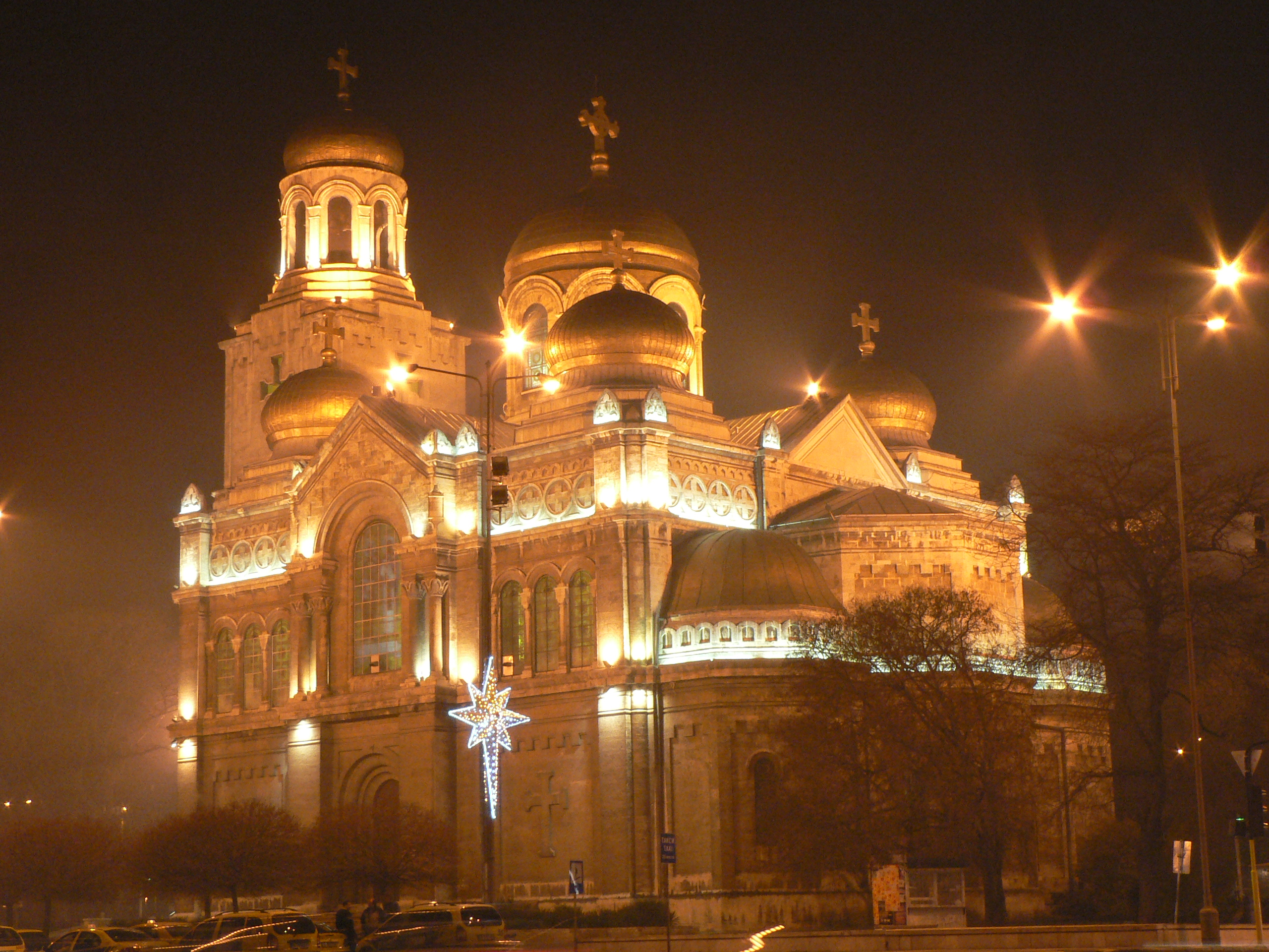 Katedrala, Varna-Bulgaria